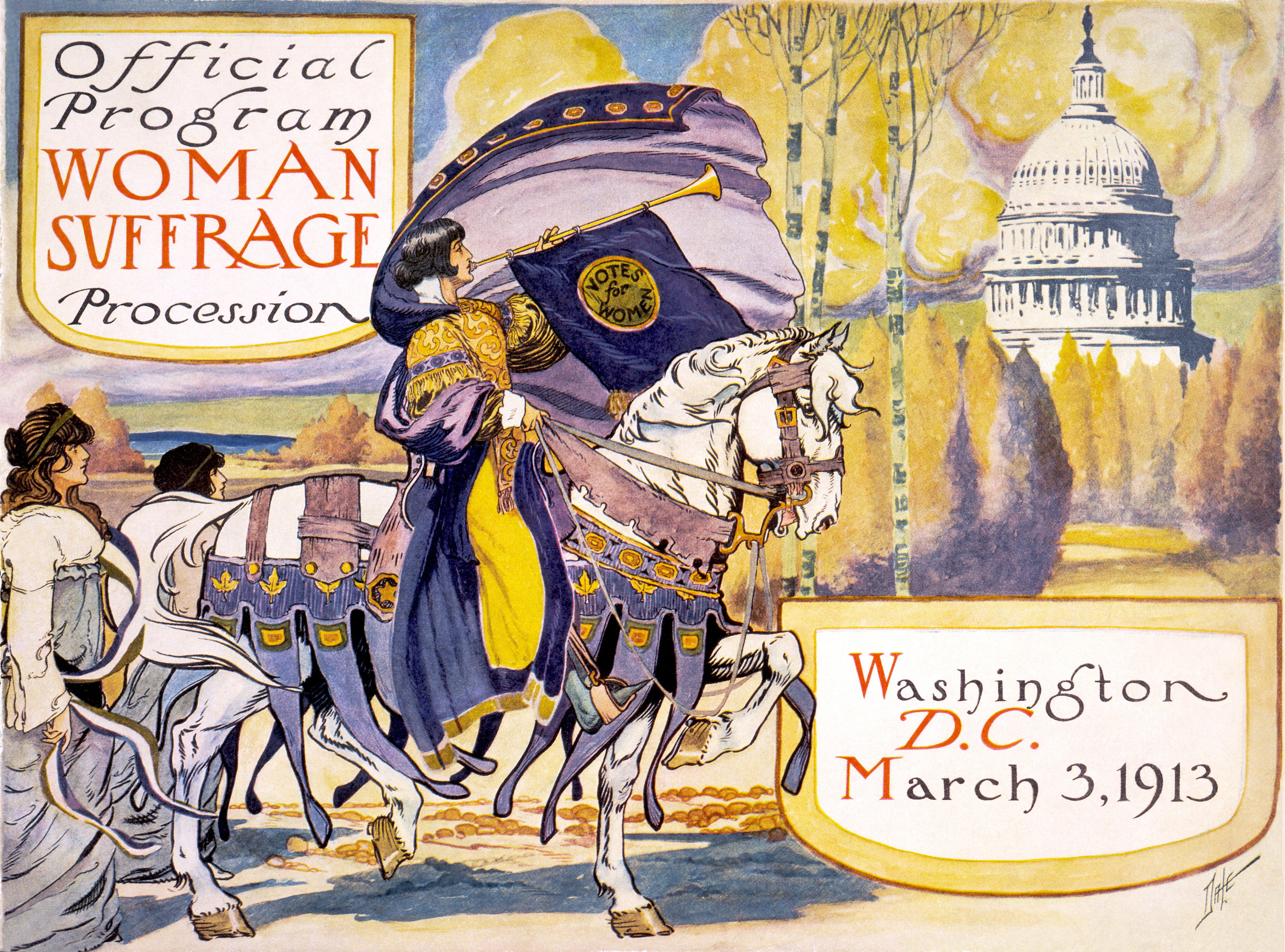 Official program - Woman suffrage procession, Washington, D.C. March 3, 1913. Cover of program for the National American Women's Suffrage Association procession, showing woman, in elaborate attire, with cape, blowing long horn, from which is draped a "votes for women" banner, on decorated horse, with U.S. Capitol in background.